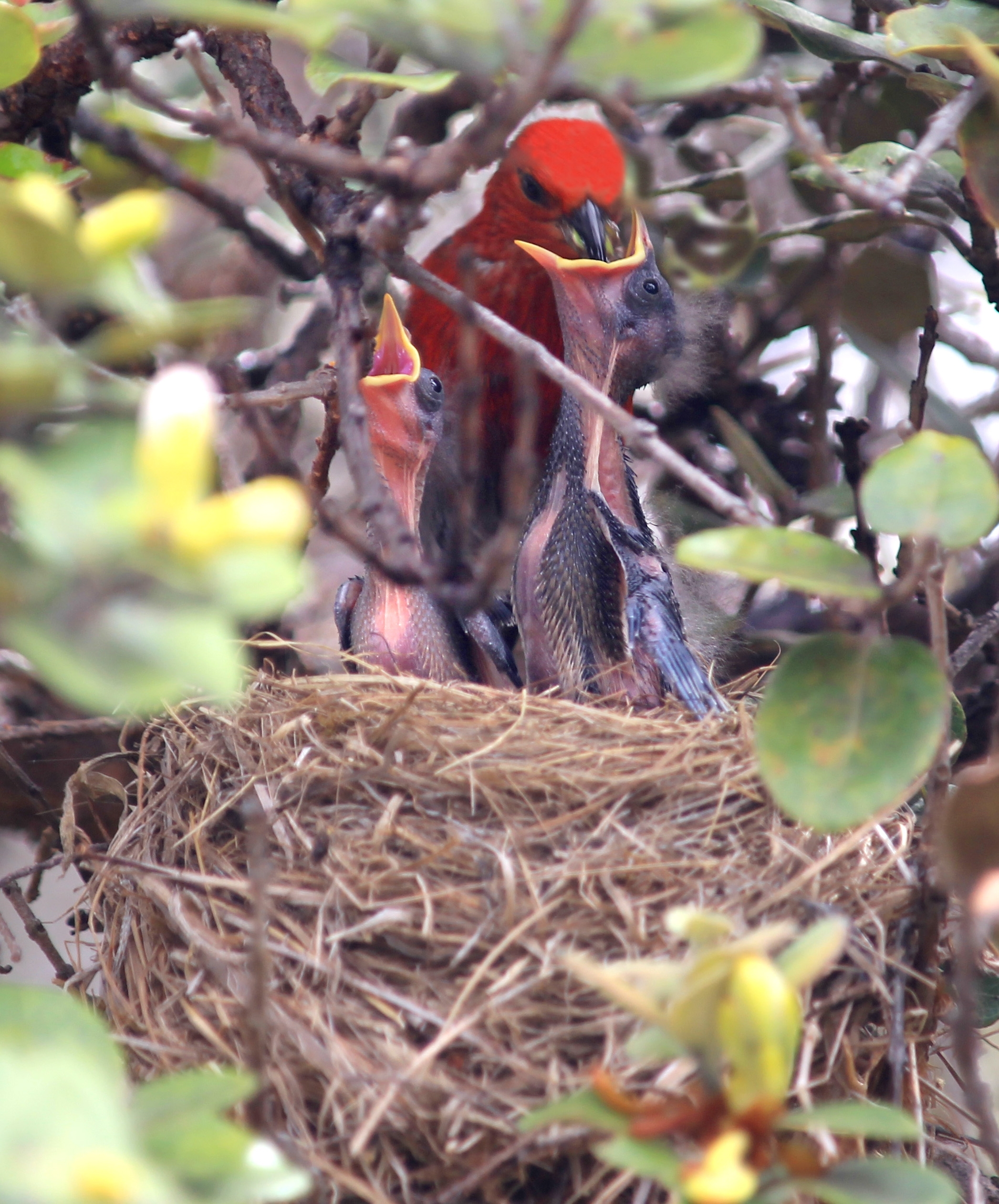 The ʻApapane is a species of finch in the Hawaiian honeycreeper subfamily, Drepanidinae, that is endemic to Hawaii.